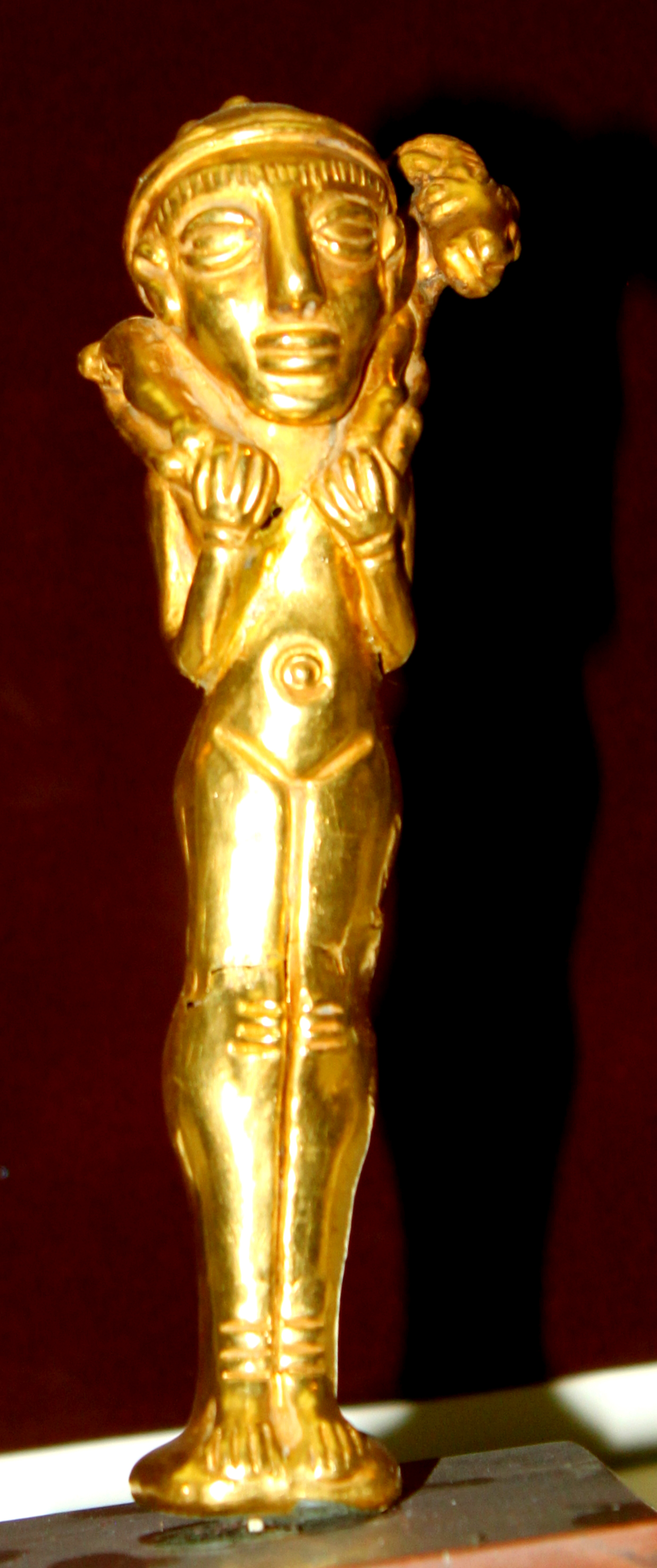 Golden statuette from Lankaran, Museum of History of Azerbaijan, I millennium BC